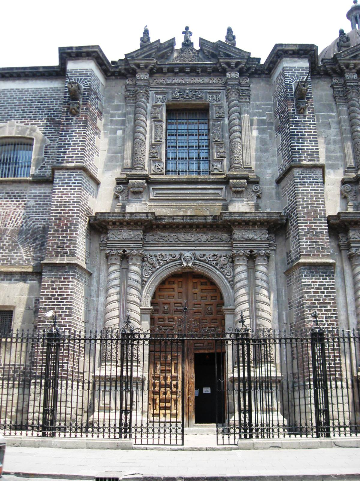 The portal of the ex convent of Santa Teresa in the historic center of Mexico City